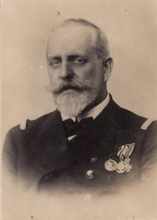 August Leopold of Saxe-Coburg-Kohary, Prince of Brazil.